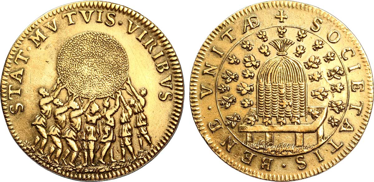 Le corps des marchands réunis. Description avers : Sept personnages portant à bout de bras le globe terrestre Description revers : Une ruche posée sur un trépied entourée d'essaim d'abeilles .